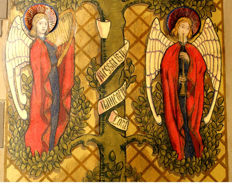 Detail of mural by Frederic Clay Bartlett in Second Presbyterian Church, Chicago, IL, created 1901.